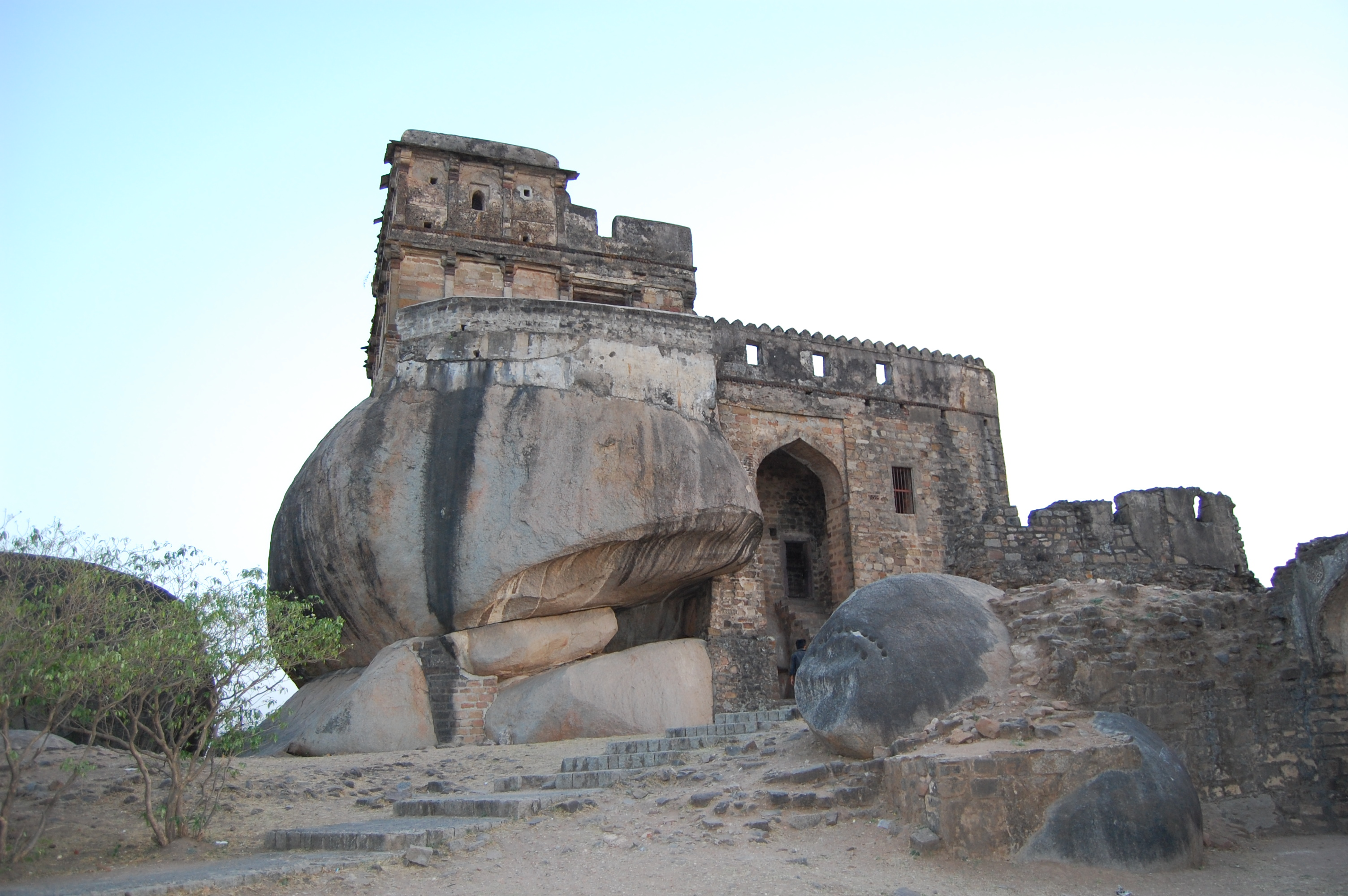 Madan Mahal Fort in the central Indian city of Jabalpur. Built in 1116 CE, it is one of the historical landmarks of Gond dynasty.